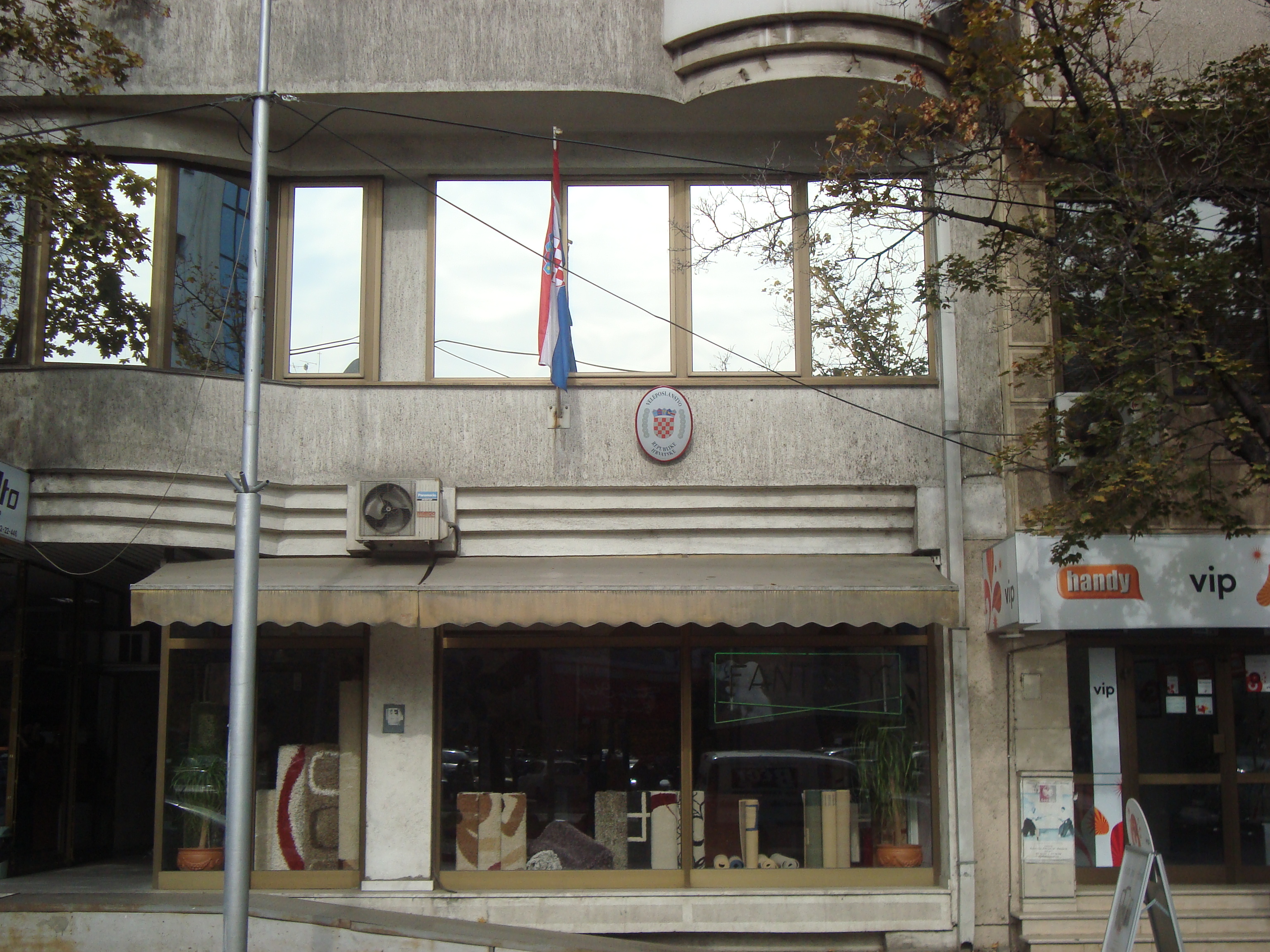 The Croatian embassy in Skopje, Macedonia.